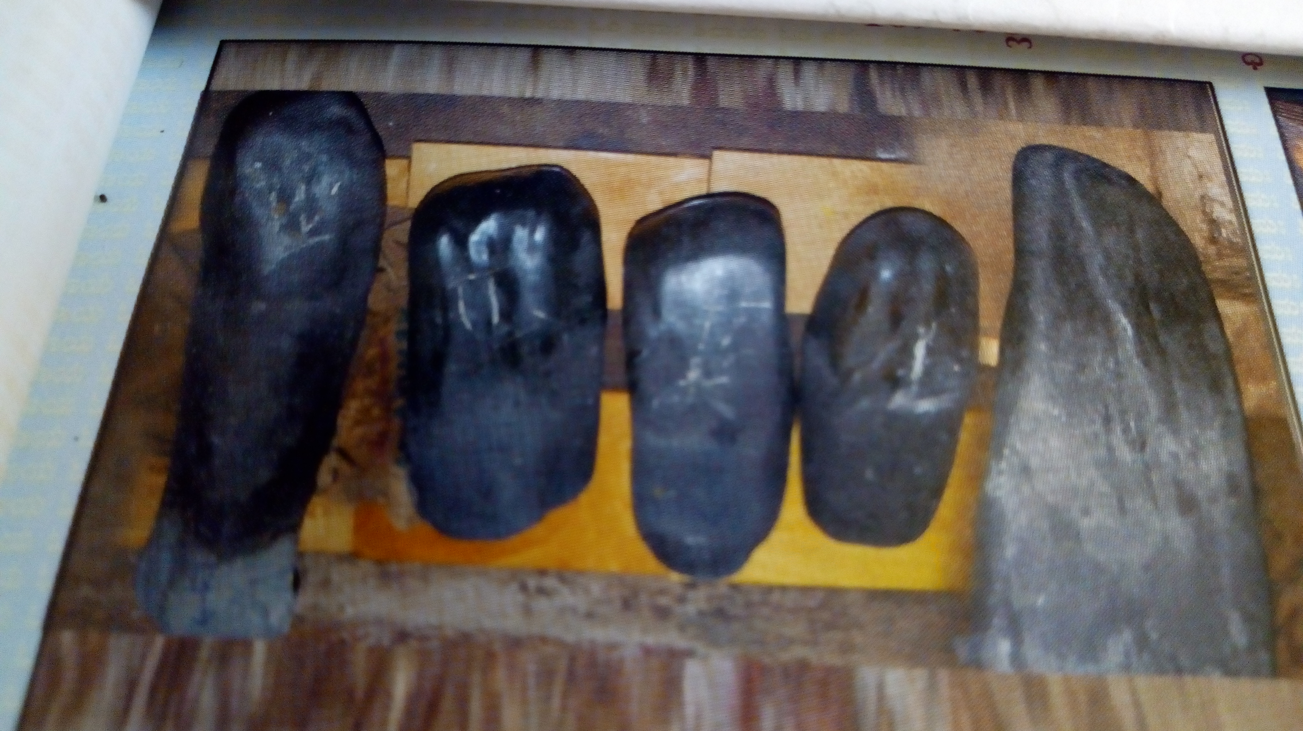 ದೇವಸ್ಥಾನದ ಮೂಲ ಪಂಚಲಿಂಗಗಳು